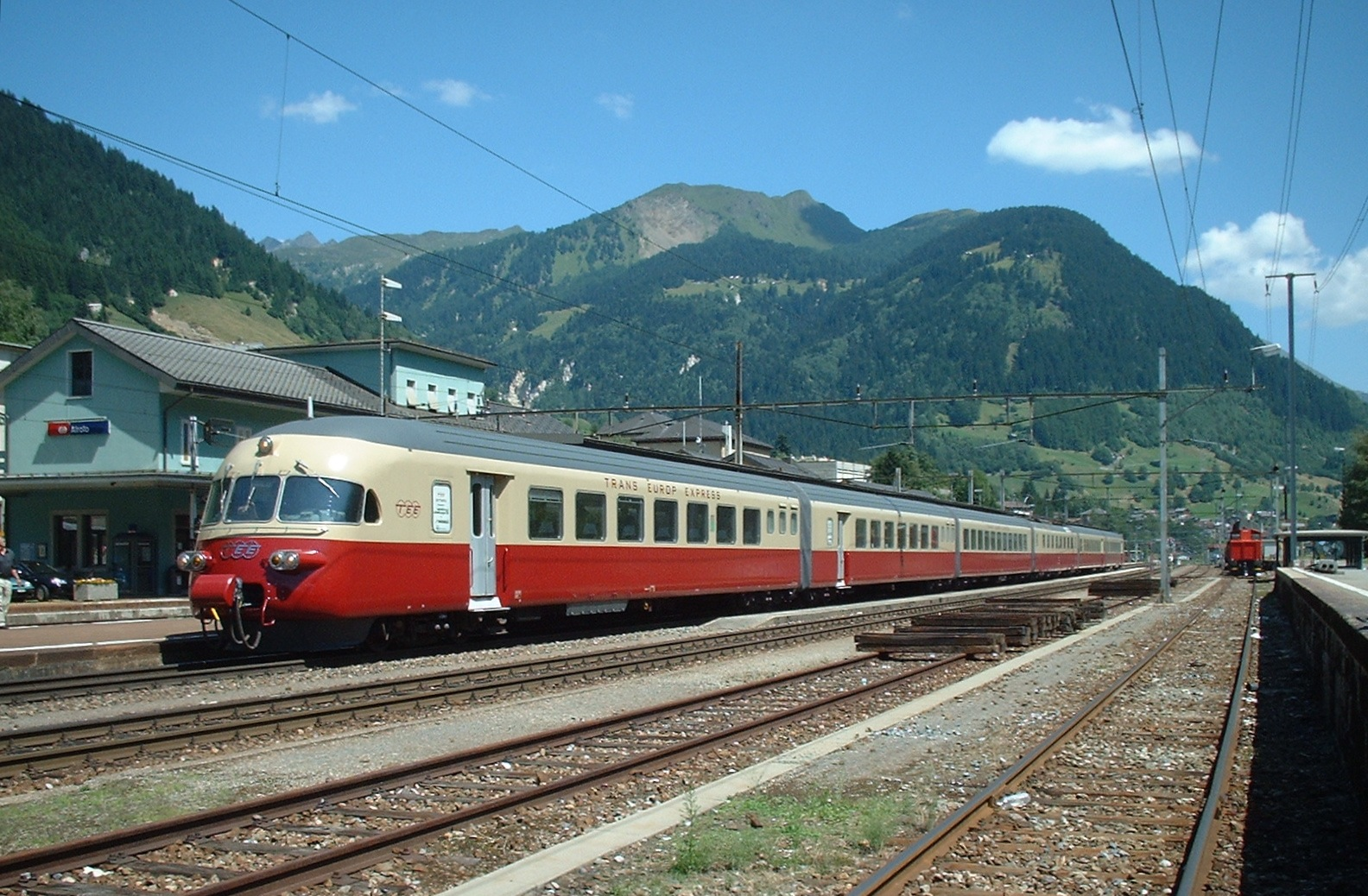 Type RAe TEE II Swiss trainset 1053 (built in 1961) at Airolo, on a special trip after being restored in 2002/3 as an historic train